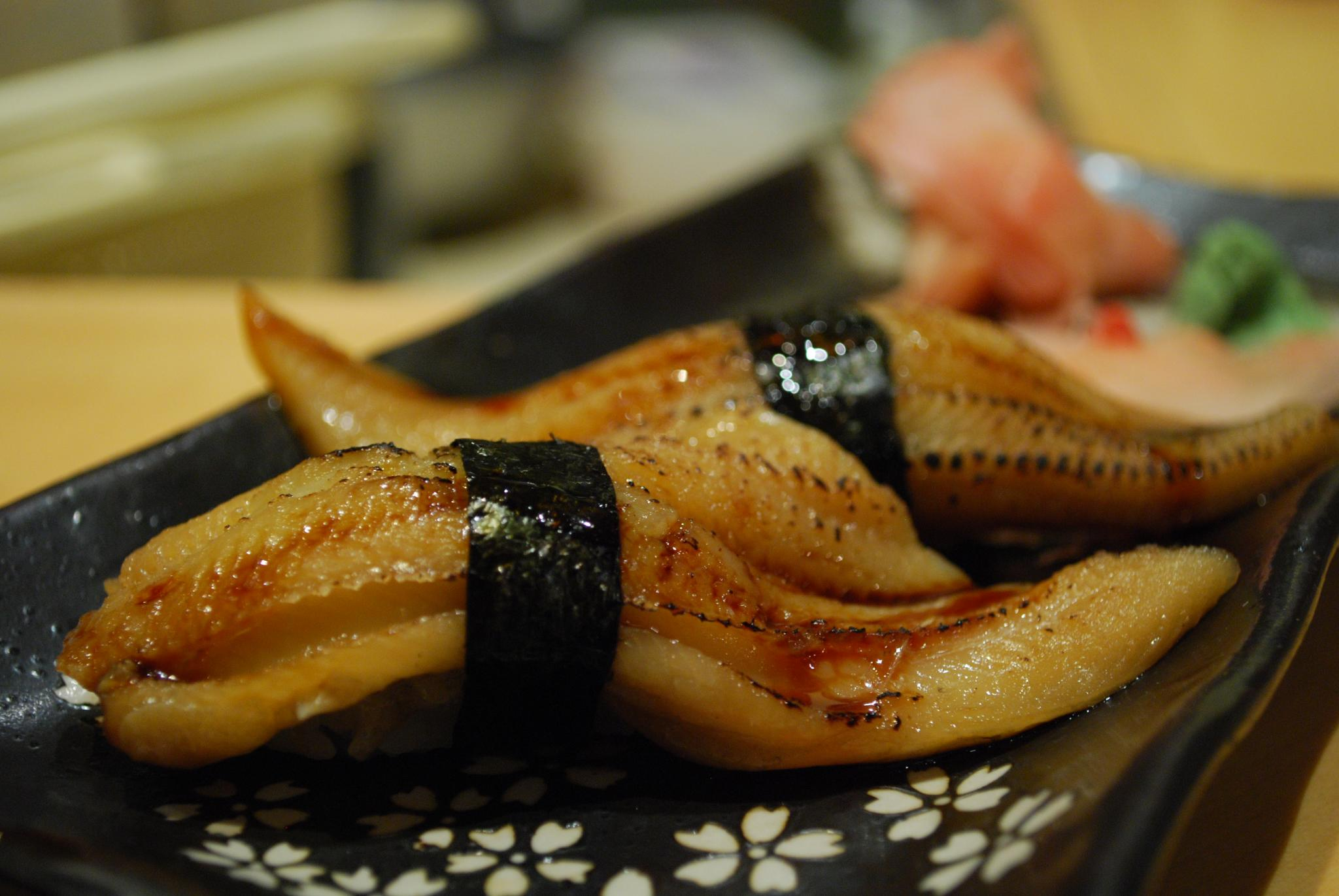 Luscious tender flesh that is not as fatty as unagi (freshwater eel), yet even more meltingly tender! I think anago tastes a bit sweeter than unagi, hence the price premium, and rarity on menus. Anago --- Dinner with Jennie and David, omakase-style at the sushi counter. Shira Nui 不知火 247 Springvale Rd Glen Waverley VIC 3150 (03) 9886-7755 Lunch Tue-Sat noon-2pm. Dinner Tue-Sun 6pm-10pm Reviews: - Shira Nui, by Dani Valent, Epicure, The Age May 22, 2007 Sit at the sushi counter. Order the omakase - Shira Nui By Jane Faulkner, Epicure, The Age October 10, 2005 Shira Nui is worth crossing town for. - Fusion without power By John Lethlean, The Age August 5 2003 At Shira Nui, only certain types of sushi will be delivered to the table, so fanatical is the chef. The full range is available only to a manageable group of sushi-bar diners. He makes; you eat immediately; then he makes again. This is the omakase menu, a sushi-only degustation that is the purest, most pleasurable dining experience I have had all year. - Shira Nui ... again - TummyRumbles by mellie on May 17th, 2009 - Shira Nui - Miettas Age Good Food Guide 2010 Score: 14.5/20 Age Good Food Guide 2009 Score: 14.5/20 Gourmet Traveller 2009 Australian Restaurant Guide "A nondescript Glen Waverley shopping strip is not the obvious place to seek boundarypushing Japanese food, but Shira Nui's camouflage partially explains its 'hidden treasure' status" Age Good Food Guide 2008 Score: 15/20 Age Good Food Guide 2006 score 15/20 Age Good Food Guide 2005 score 14/20 AGFG 2004, score 14/20 - Shiranui - UrbanSpoon - Shira Nui - Your Restaurants